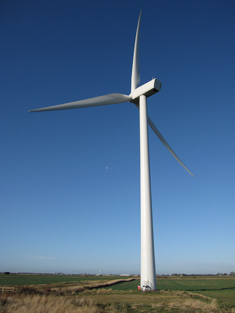 Stags Holt wind turbine One of nine 2MW turbines in this E.ON wind farm that produces electricity for 10,000 homes (according to the E.ON website). The Fens are so flat that there is little to get in the way of the wind. The farm was built in 2006/7.